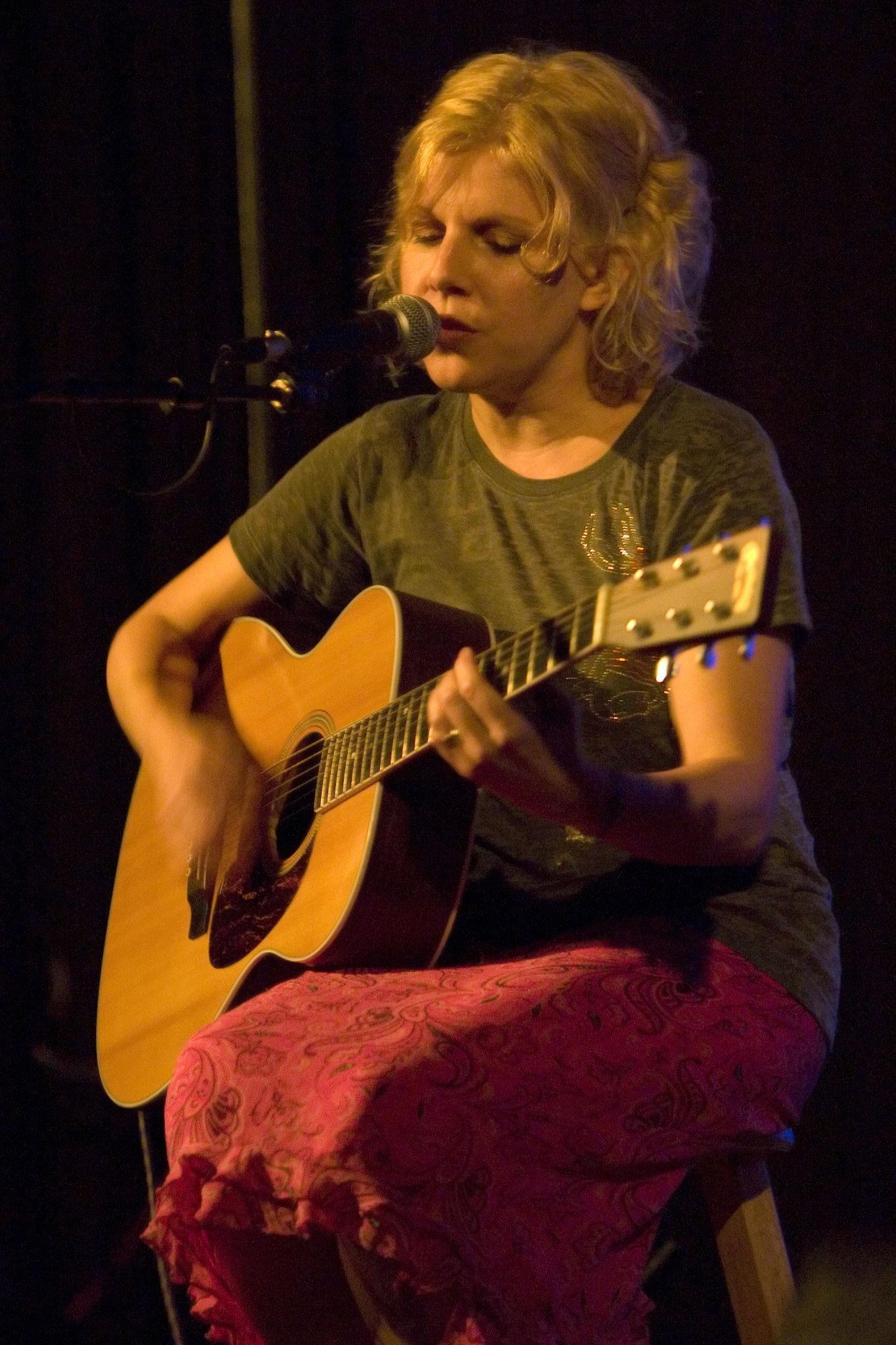 Tanya Donelly at the Brattle Theater, in Harvard Square, Cambridge, MA.